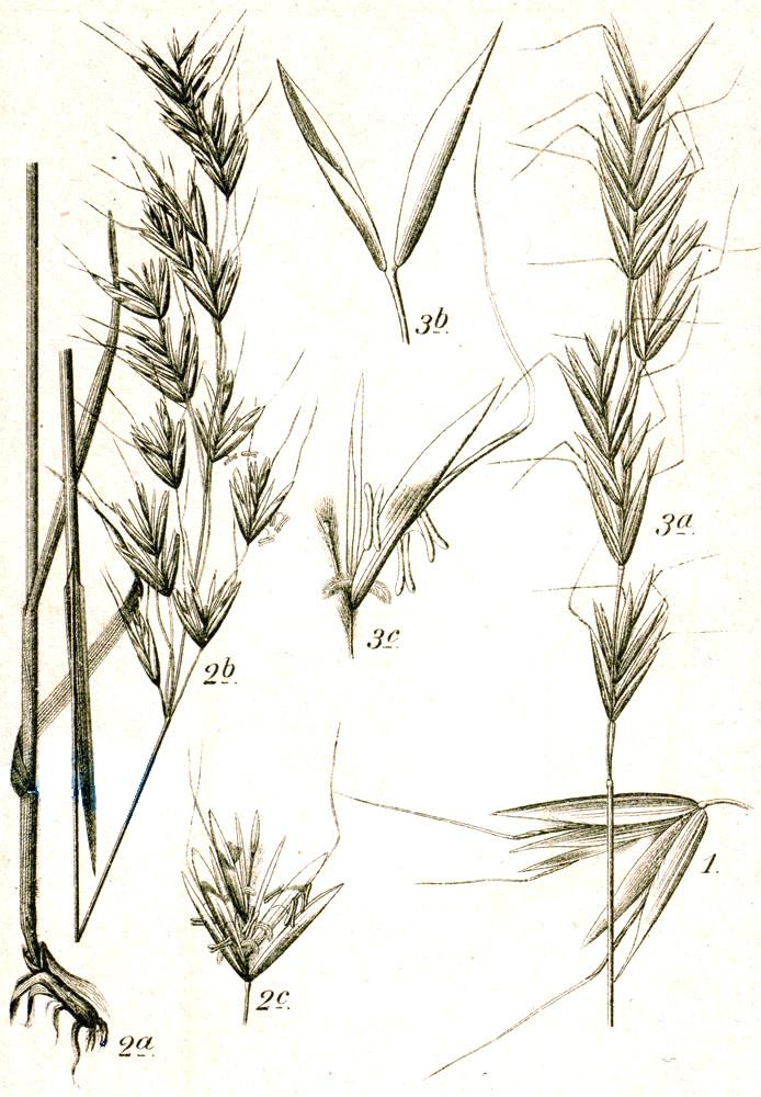 1. Avena fatua L. 2. Avenula pubescens (Huds.) Dumort., syn. Helictotrichon pubescens (Huds.) Schult. & Schult.f. 3. Helictotrichon pratense (L.) Pilg., syn. Avenula pratensis subsp. pratensis Original Caption 1. Flughafer, Avena fatua L. 2. Flaumhafer, A. pubescens L. 3. Wiesenhafer, A. pratense L.